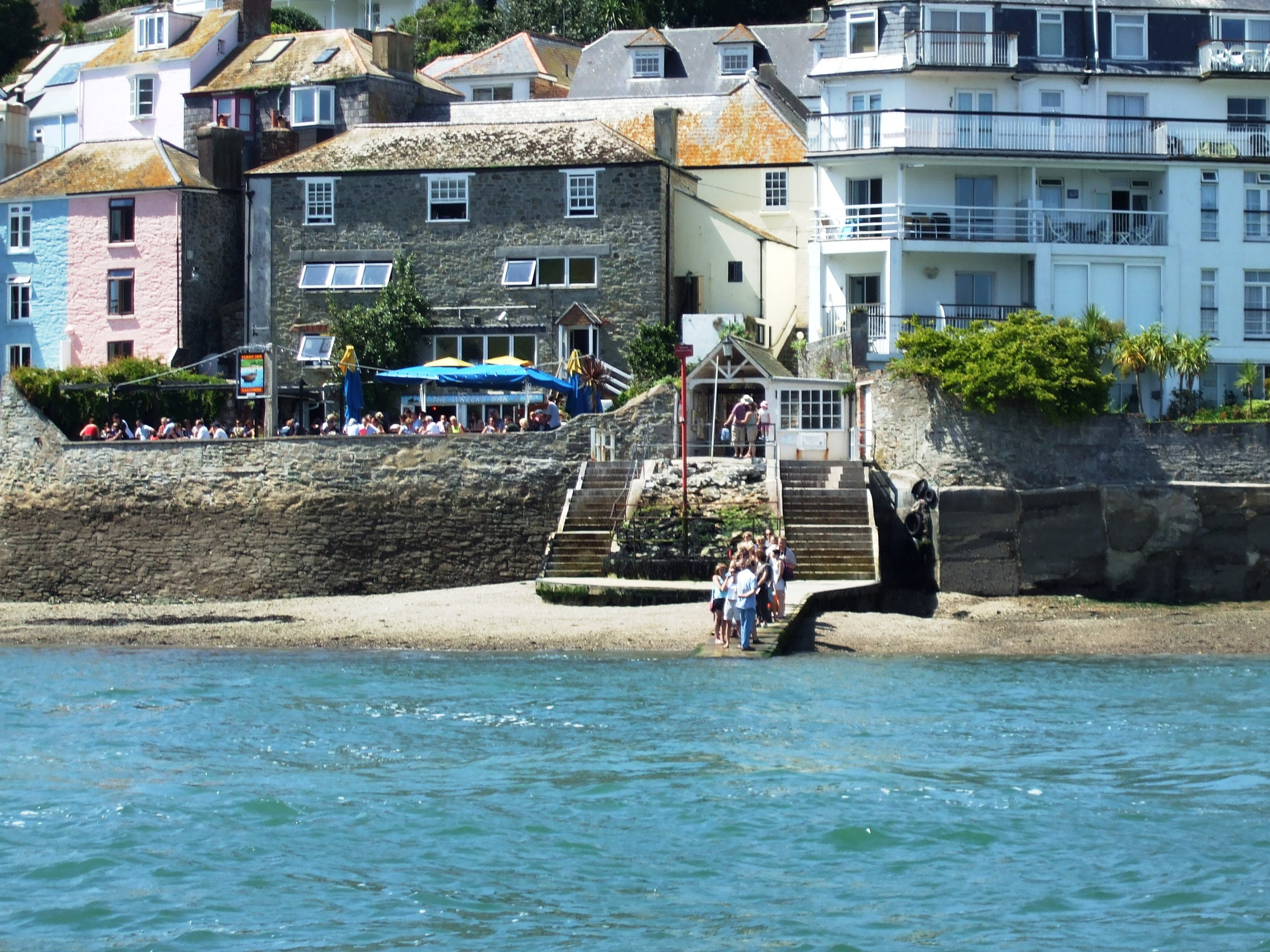 The ferry jetty at Salcombe